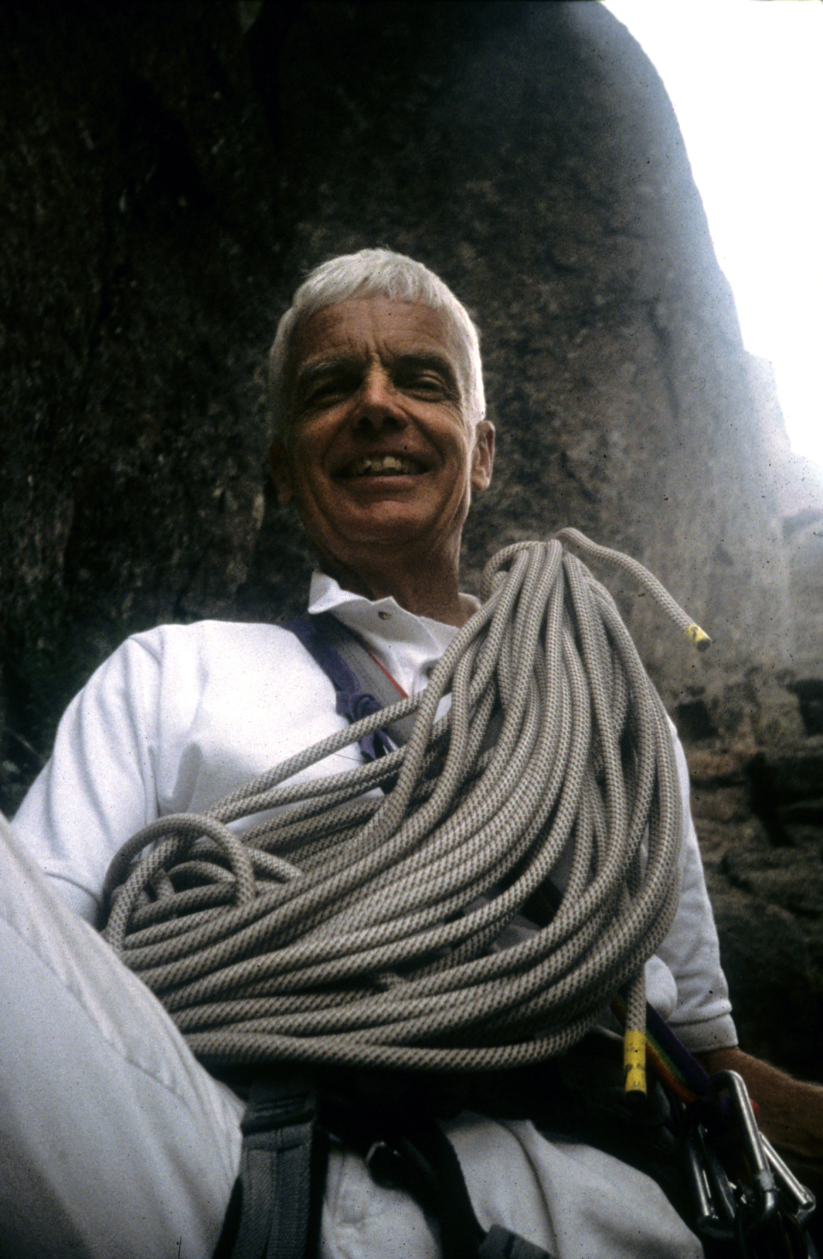 Tom Frost after a climb of "Over the Hill," in Eldorado Canyon, Colorado. Photo by Pat Ament.